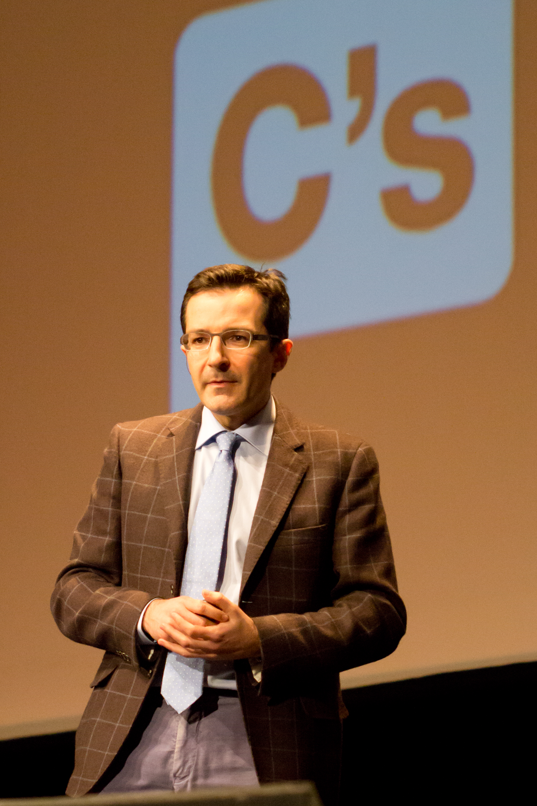 Spanish economist Diego Comín with Ciudadanos.